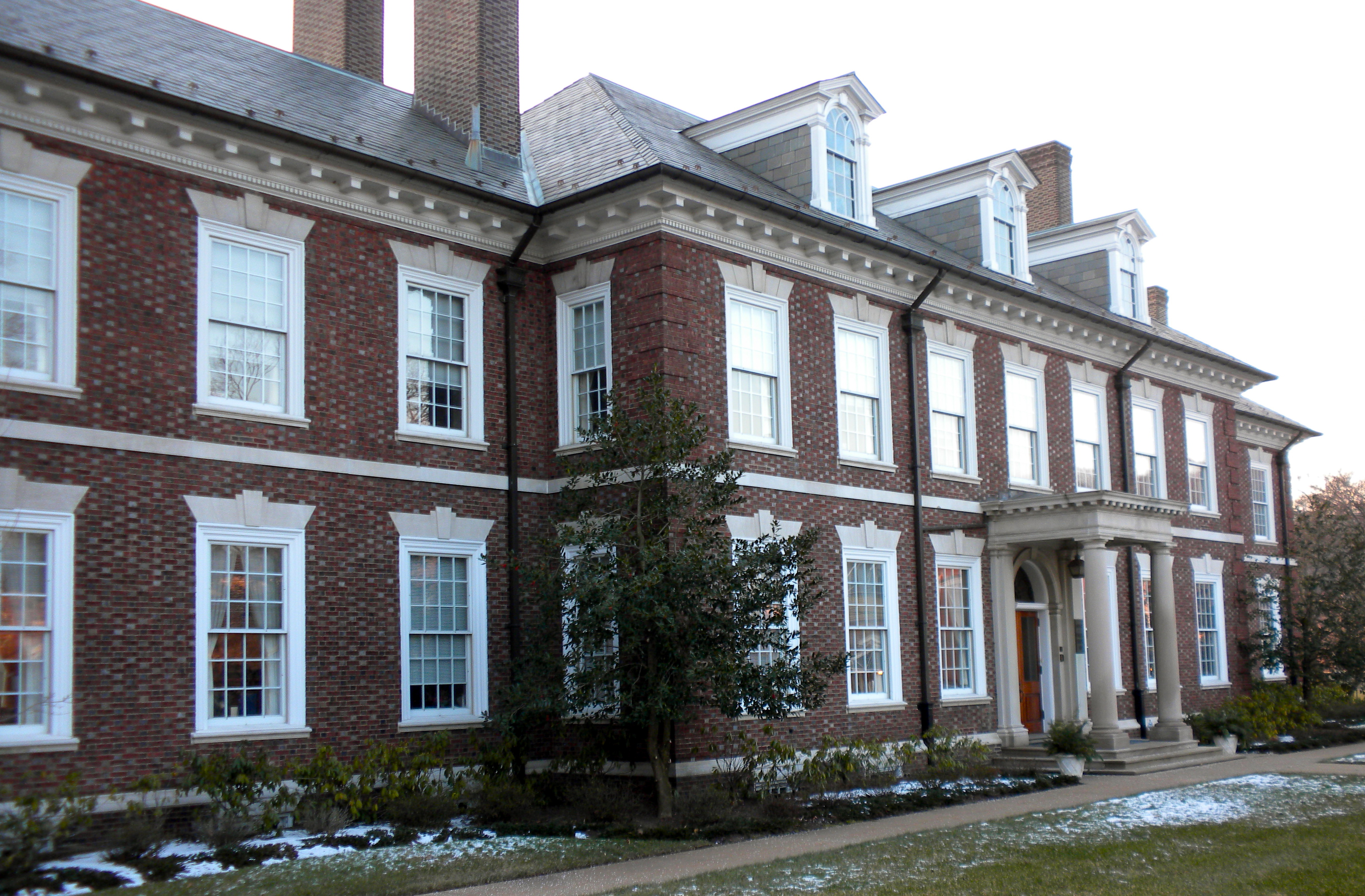 Former Main Office of Lukens Steel Company, now main office of Lukens Historic District, and separately on the NRHP In Coatesville, PA 50 South 1st Avenue 39°58′54″N 75°49′25″W near the West Branch of Brandywine Creek